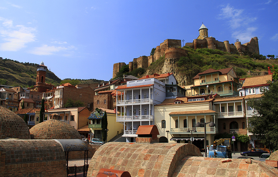 Old Tbilisi